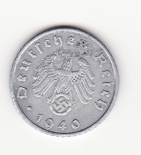 1940 Nazi Germany Zinc 5 Reichspfennig coin